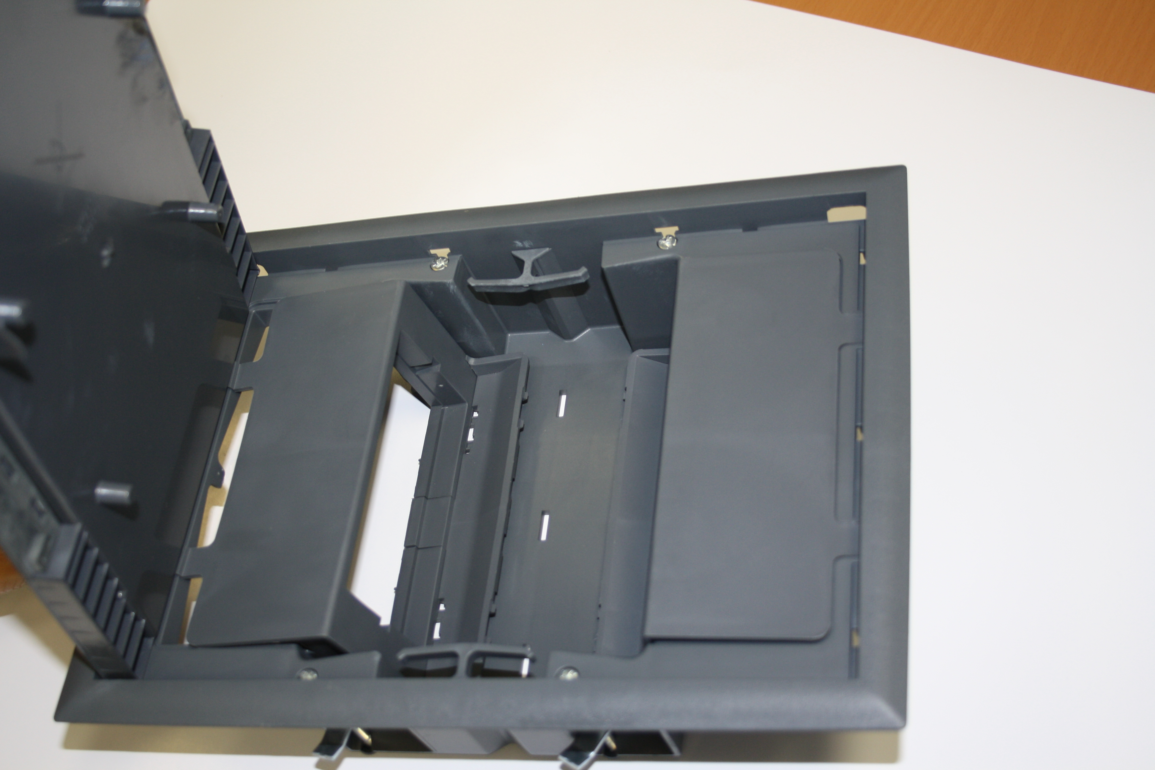 Underfloor box, empty